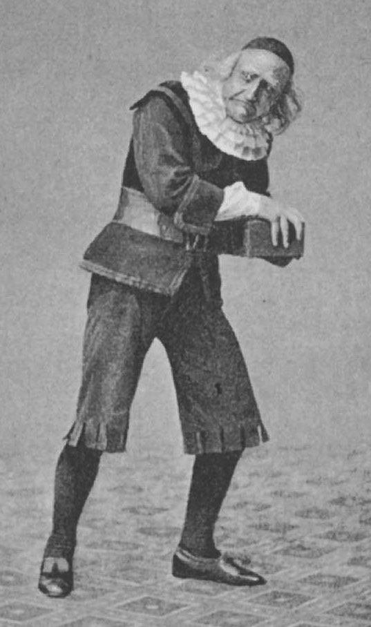 Swedish actor Knut Almlöf (1829-1899) as Harpagon.